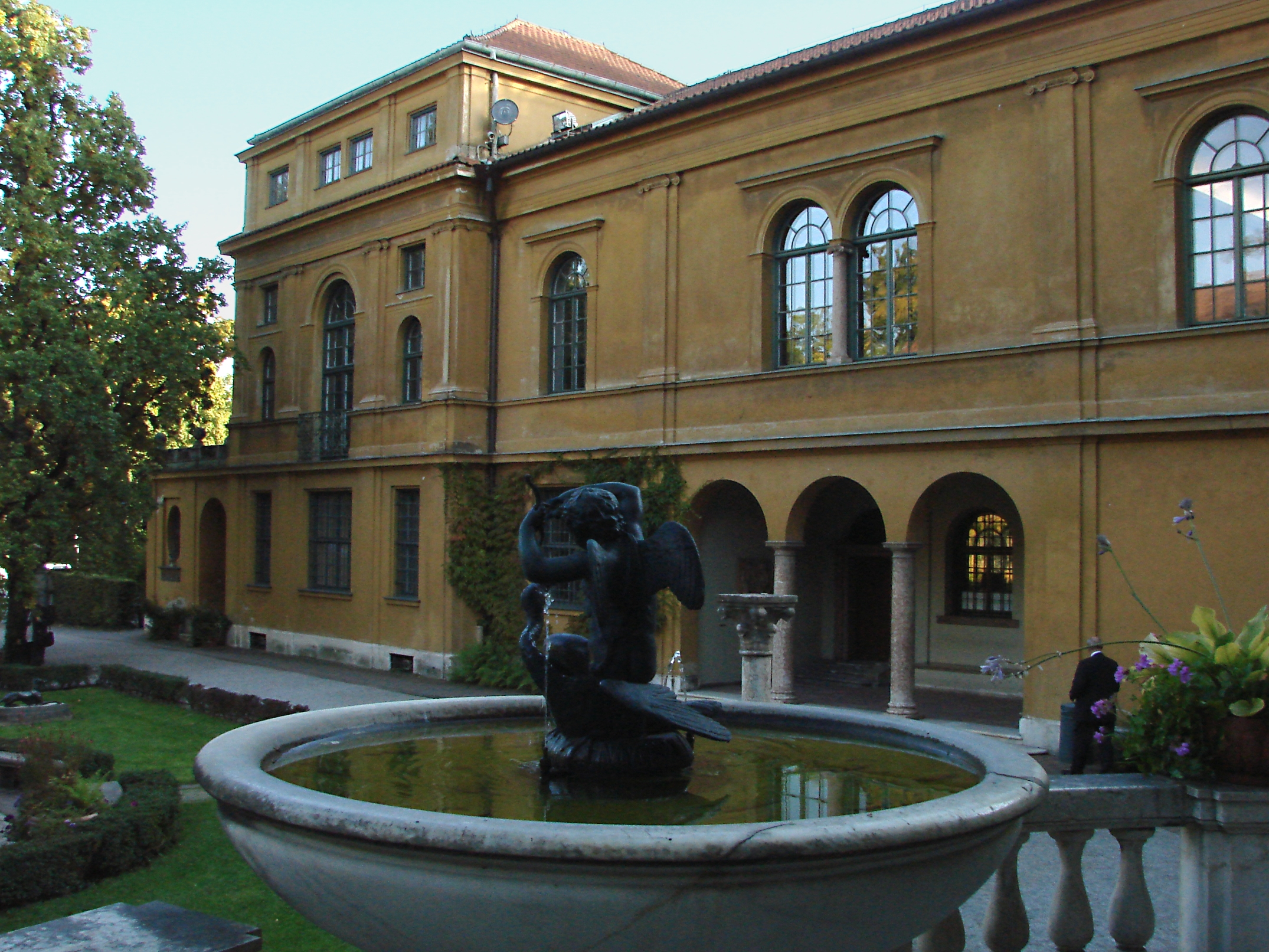 Lenbachhaus, Munich, the studio wing